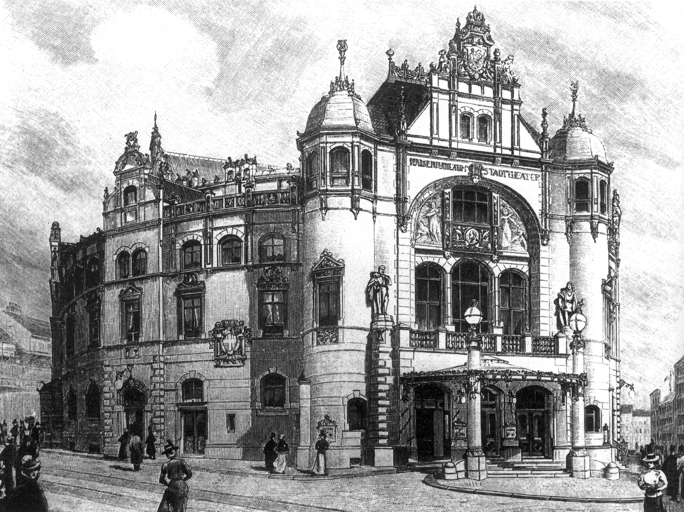 Xylography of the Kaiser-Jubiläums-Stadttheater (today Vienna Volksoper) published an 19. January 1899 in "Leipziger Illustrierte"